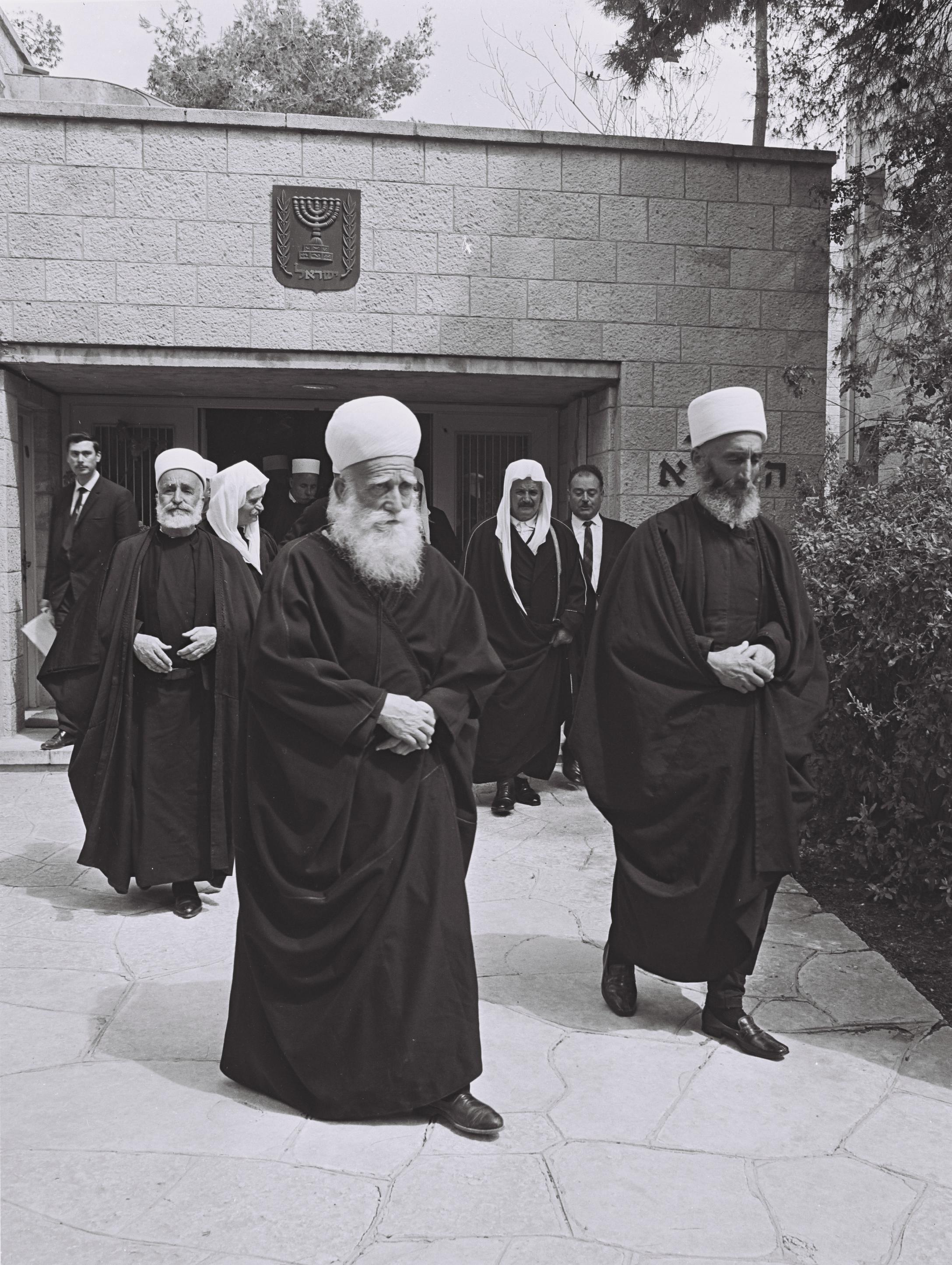 Sheikh Amin Tarif and notables of the Druze community leaving Beit Hanassi in Jerusalem after the reception for members of the Druze community on Id El Adha.